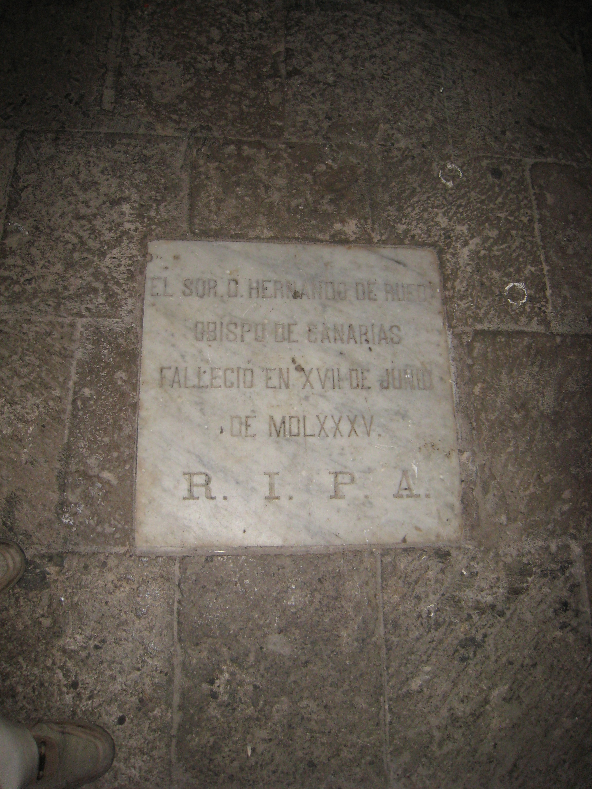 Tomb of Fernando Rueda, bishop of Canary Islands, died 1585. It is in the church of the Immaculate Conception in San Cristobal de la Laguna, Tenerife